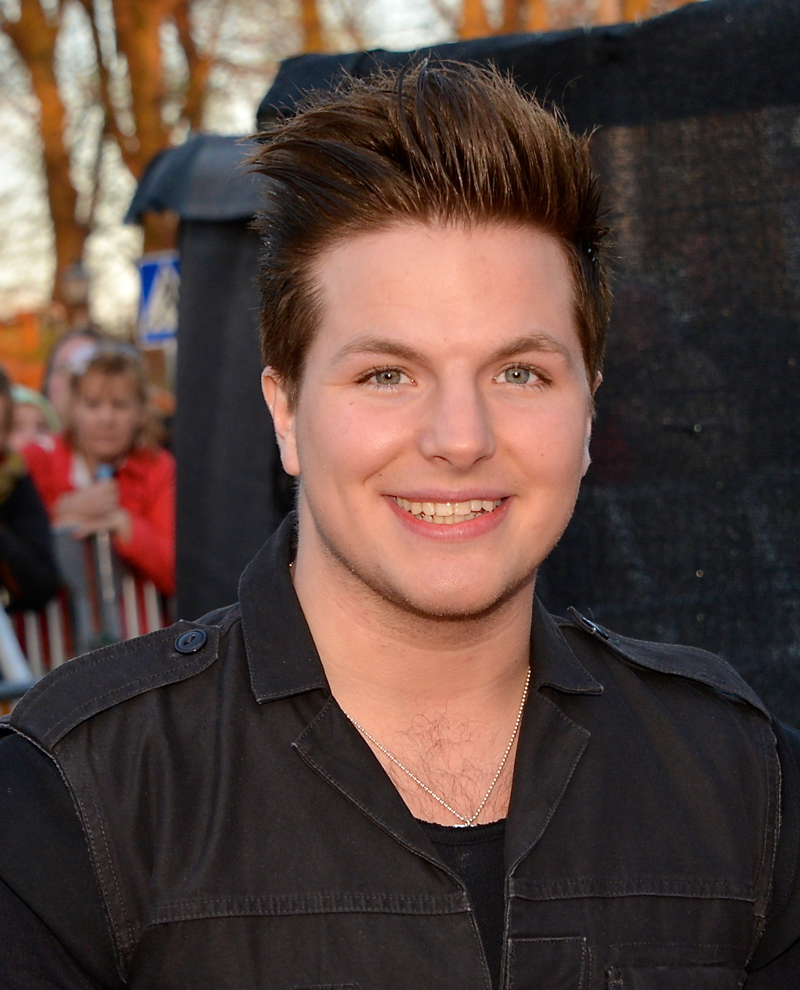 Robin Stjernberg at the inauguration of the ABBA Museum and the Swedish Music Hall of Fame in Stockholm on 6 May 2013.